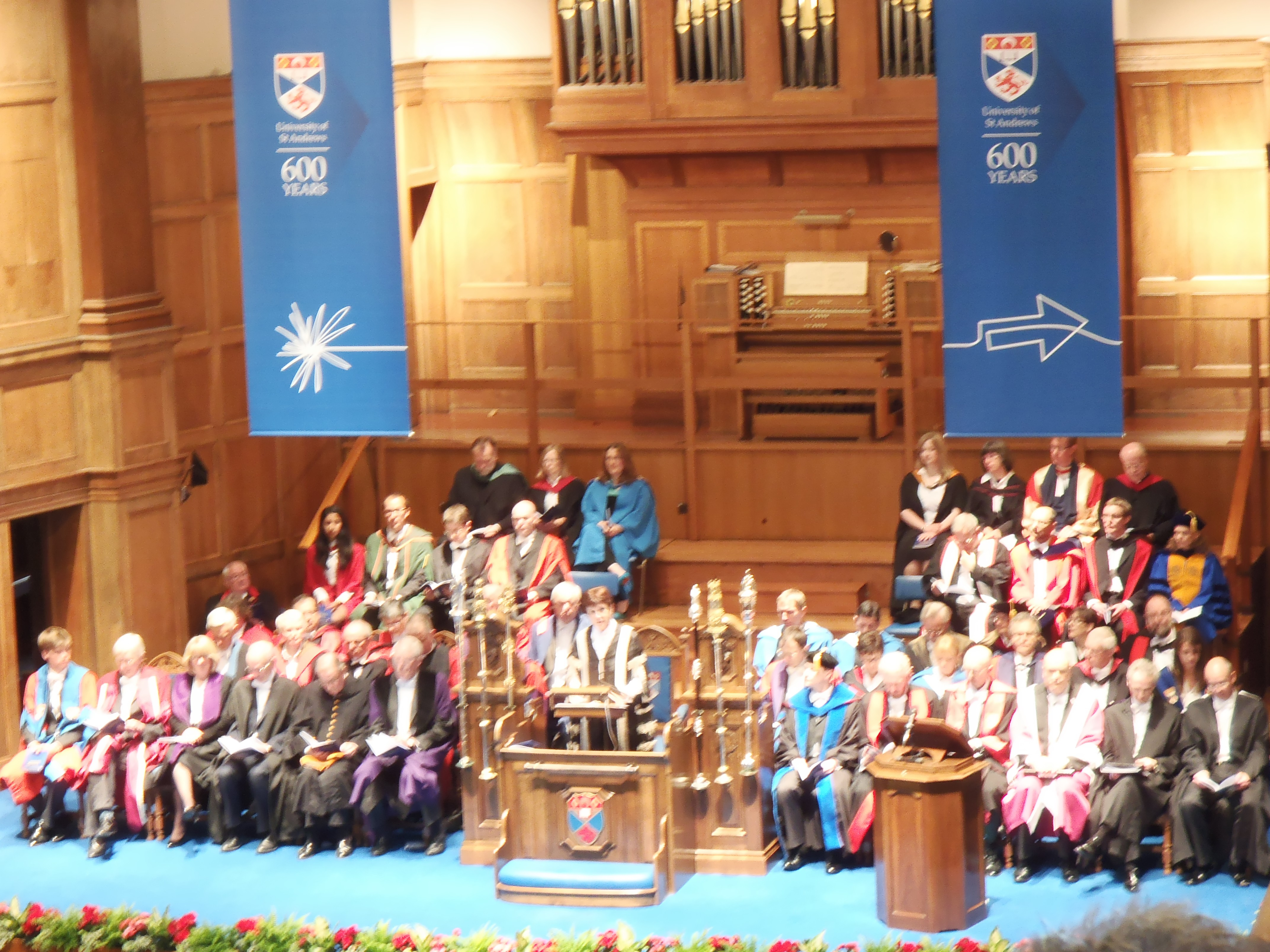 Academics on stage at the Younger Hall for the 2013 graduation summer graduation ceremony